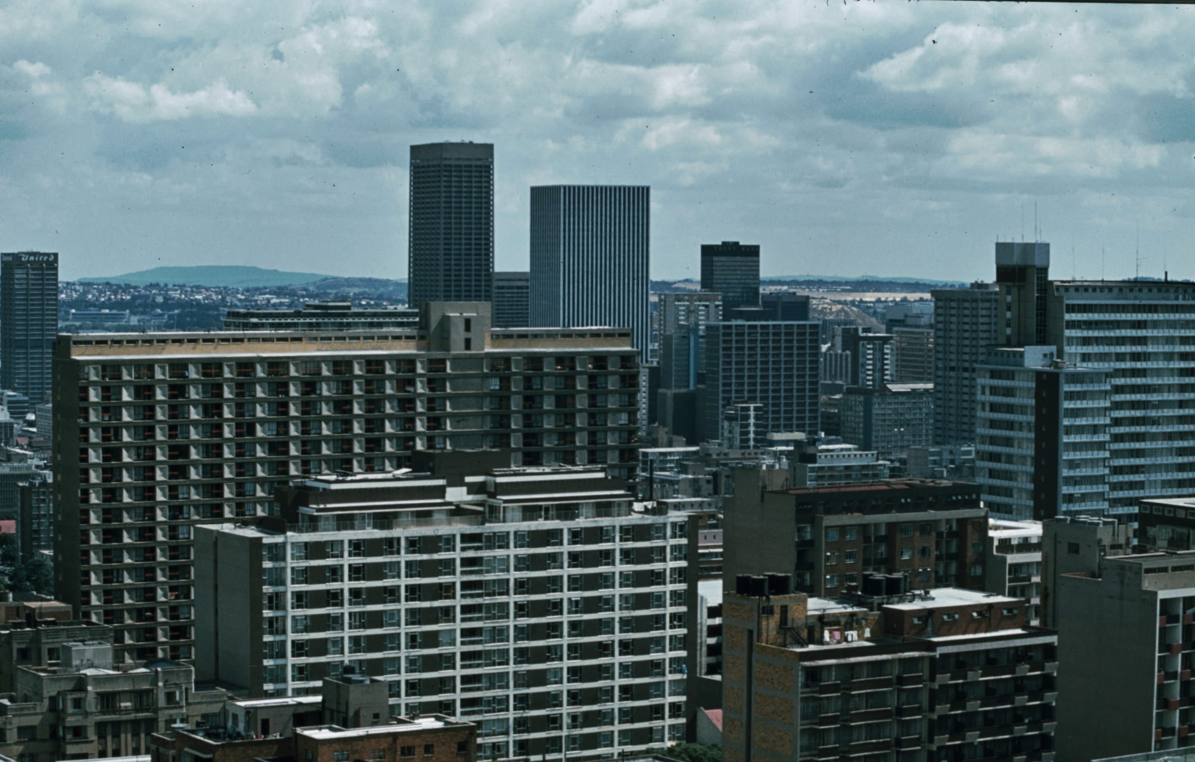 Federated Place, Hillbrow, Johannesburg, 1980